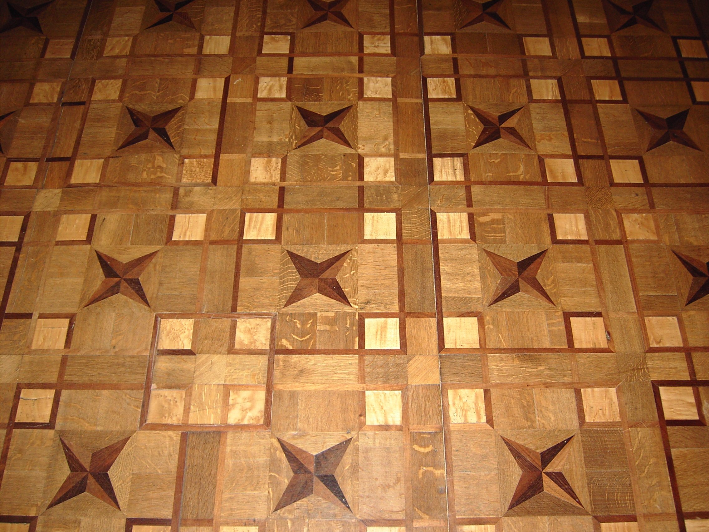 Parquet in a room at the Château de Seneffe